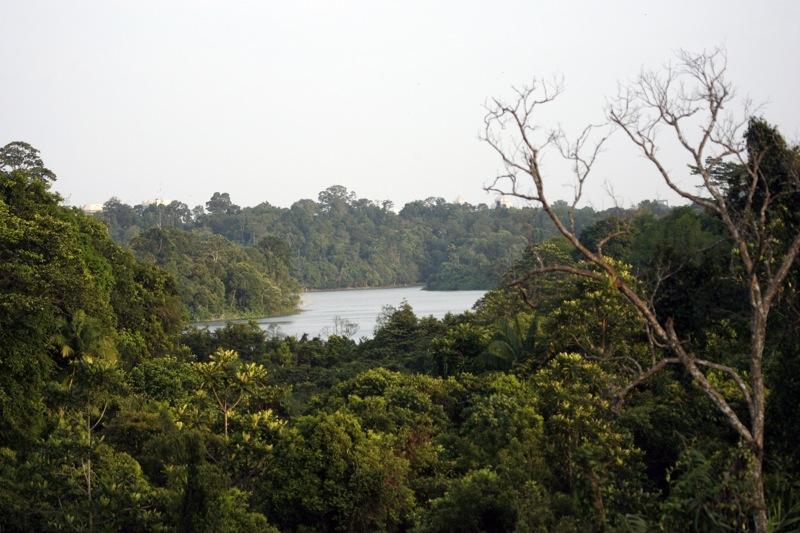 View from Jelutong Tower, a tall viewing tower.